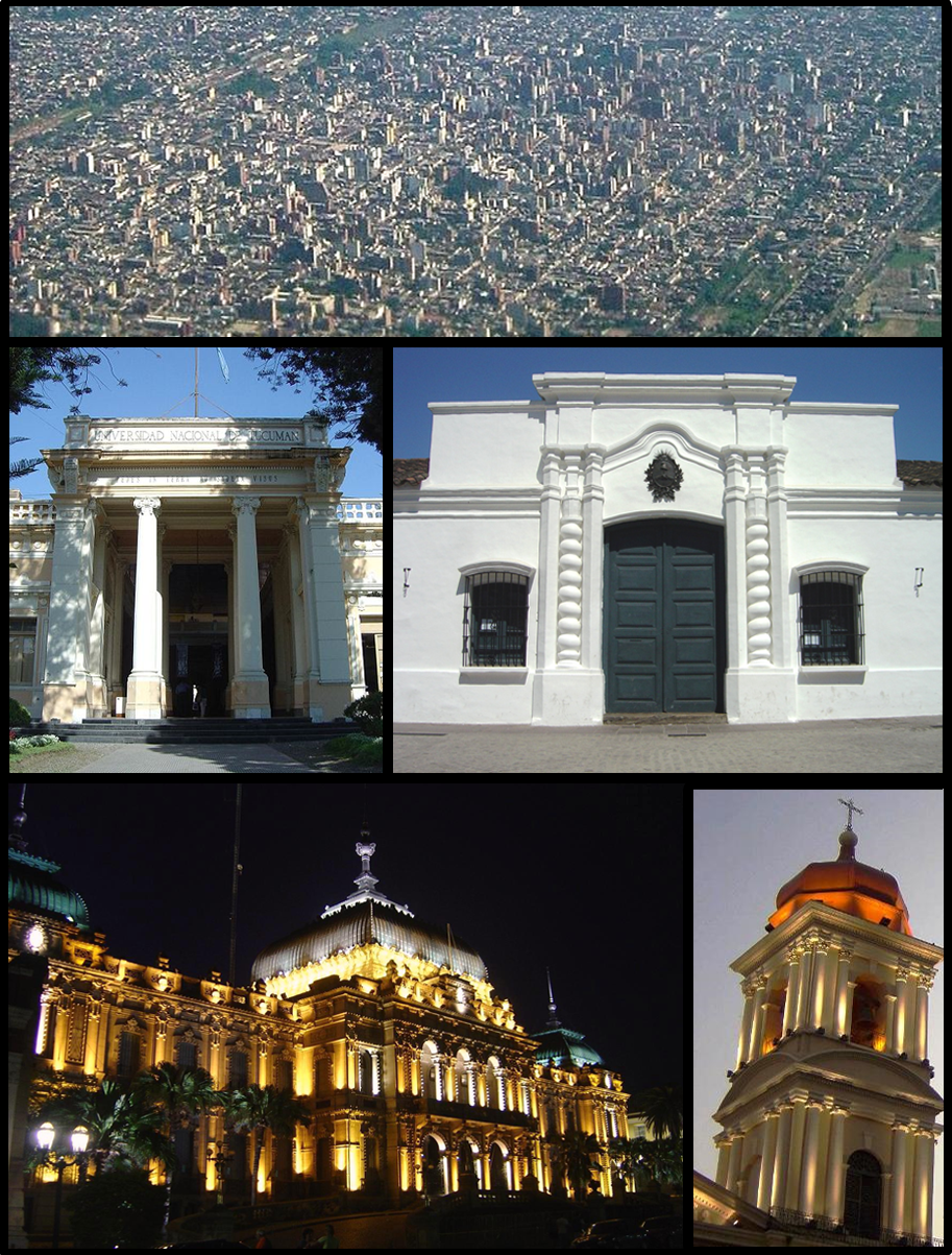 San Miguel de Tucuman